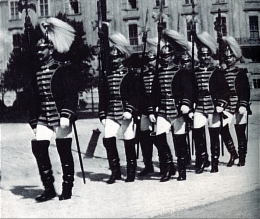 The Trabantenleibgarde, one of the guards of the austrian emperor